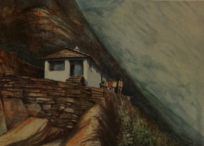 A Daramsalla in Tibet.